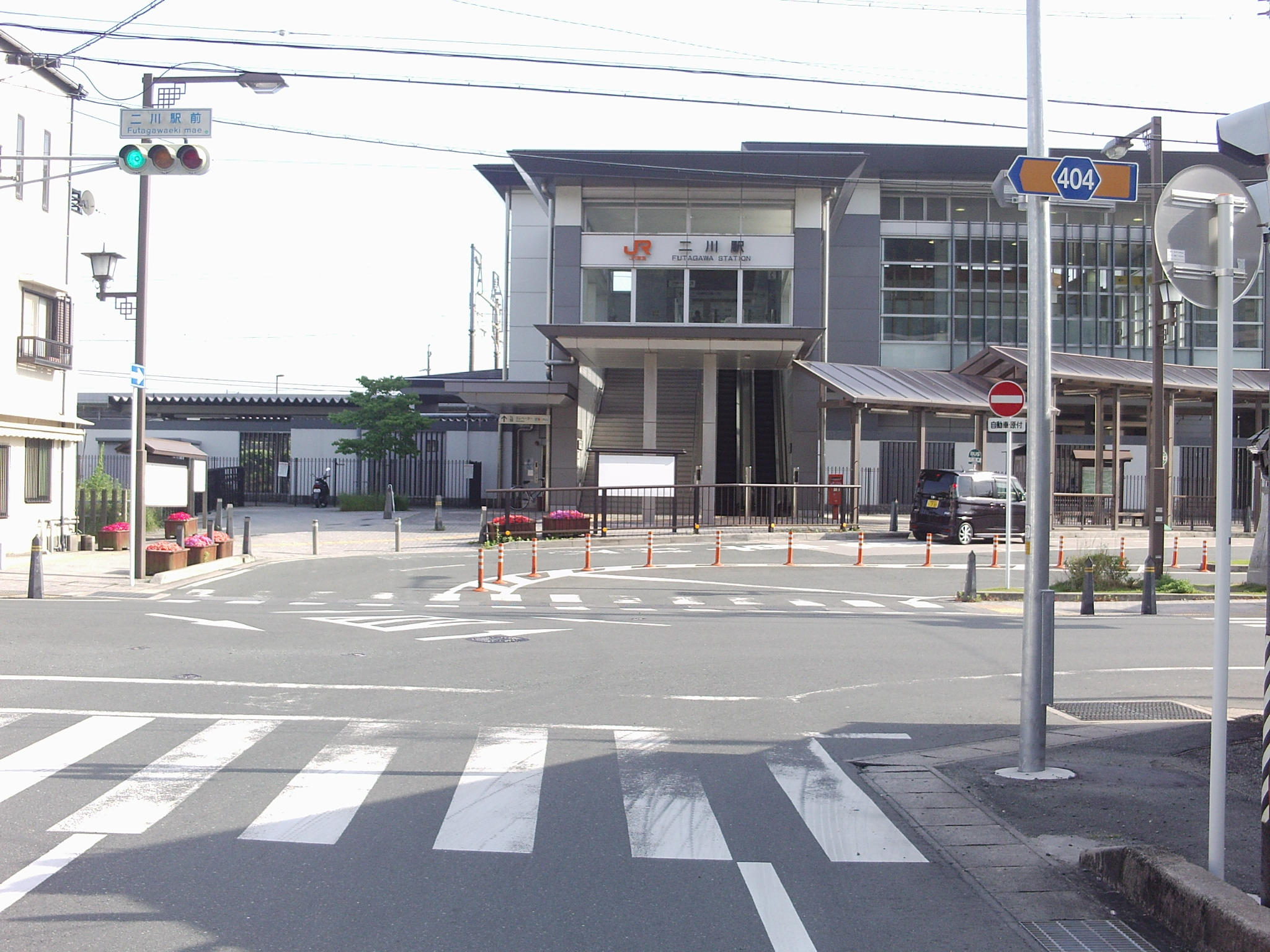 Aichi prefectural road No.404 in Oiwacho, Toyohashi, Aichi. Ending point, Hutagawa Station.